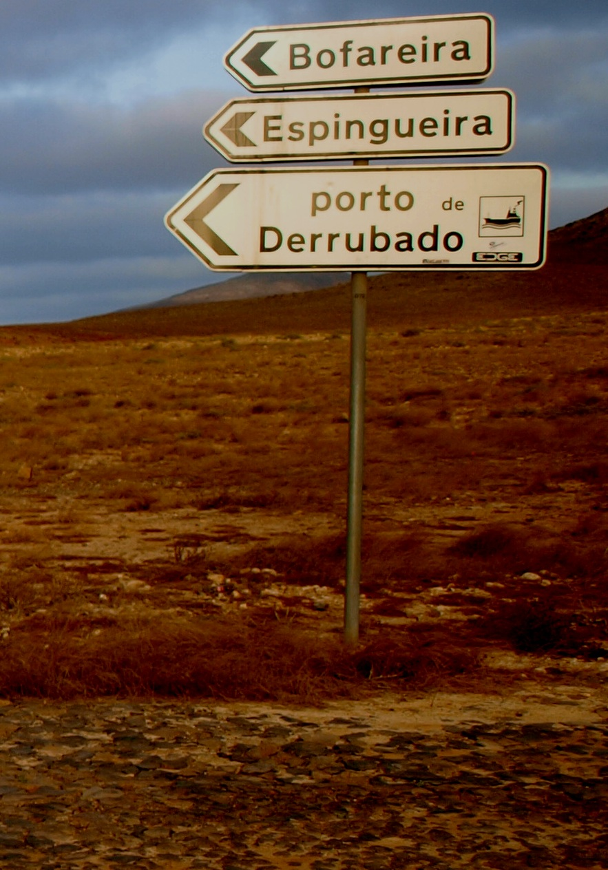 Signs to Espingueira and other places in Boa Vista island, Cape Verde.